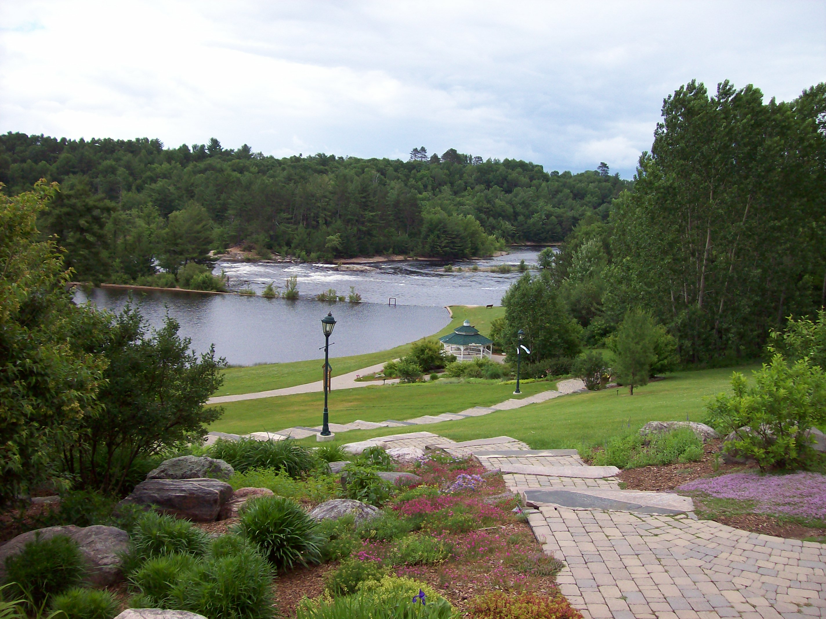 Petawawa River and the Emerald Necklace Trail, Petawawa, Ontario, seen from behind the town hall. From this vantage point you see the "Cat Walk" which a weir holding water captured at the higher point of the river. It forms a safe place for swimmers.